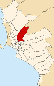 Map of Lima highlighting the San Juan de Lurigancho district in northern Lima.